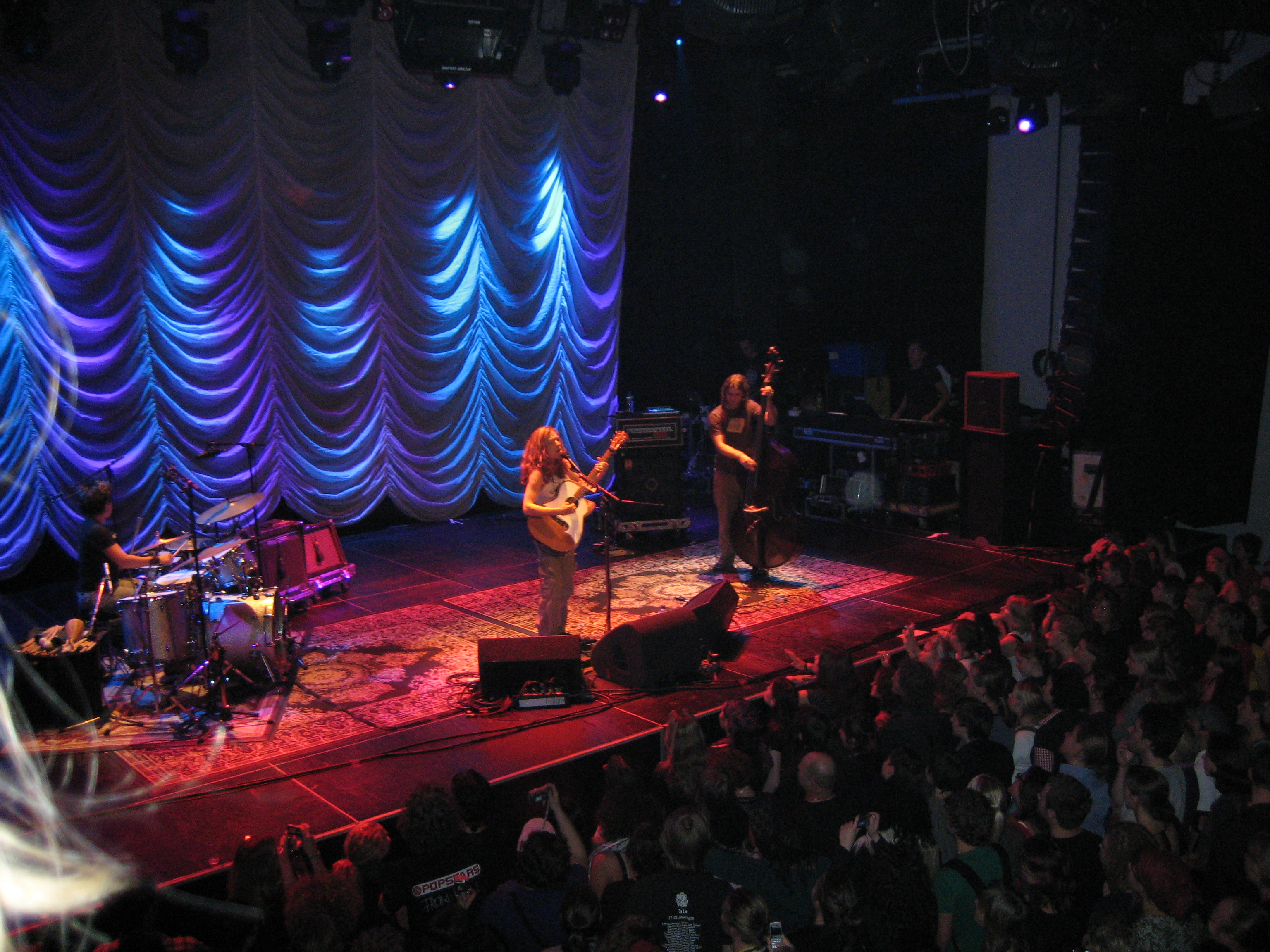 Ani DiFranco performing in the Melkweg, Amsterdam (NLD)